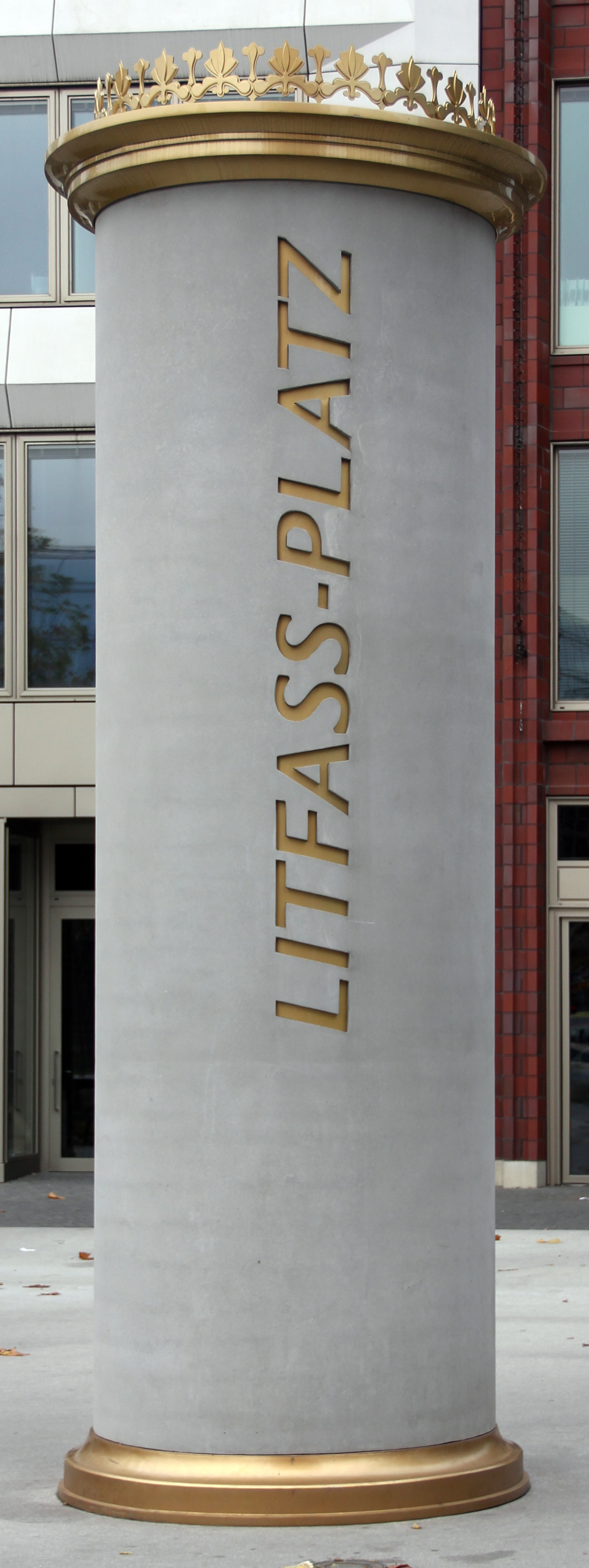 Memorial, Ernst Litfaß, Litfaß-Platz 2, Berlin-Mitte, Germany